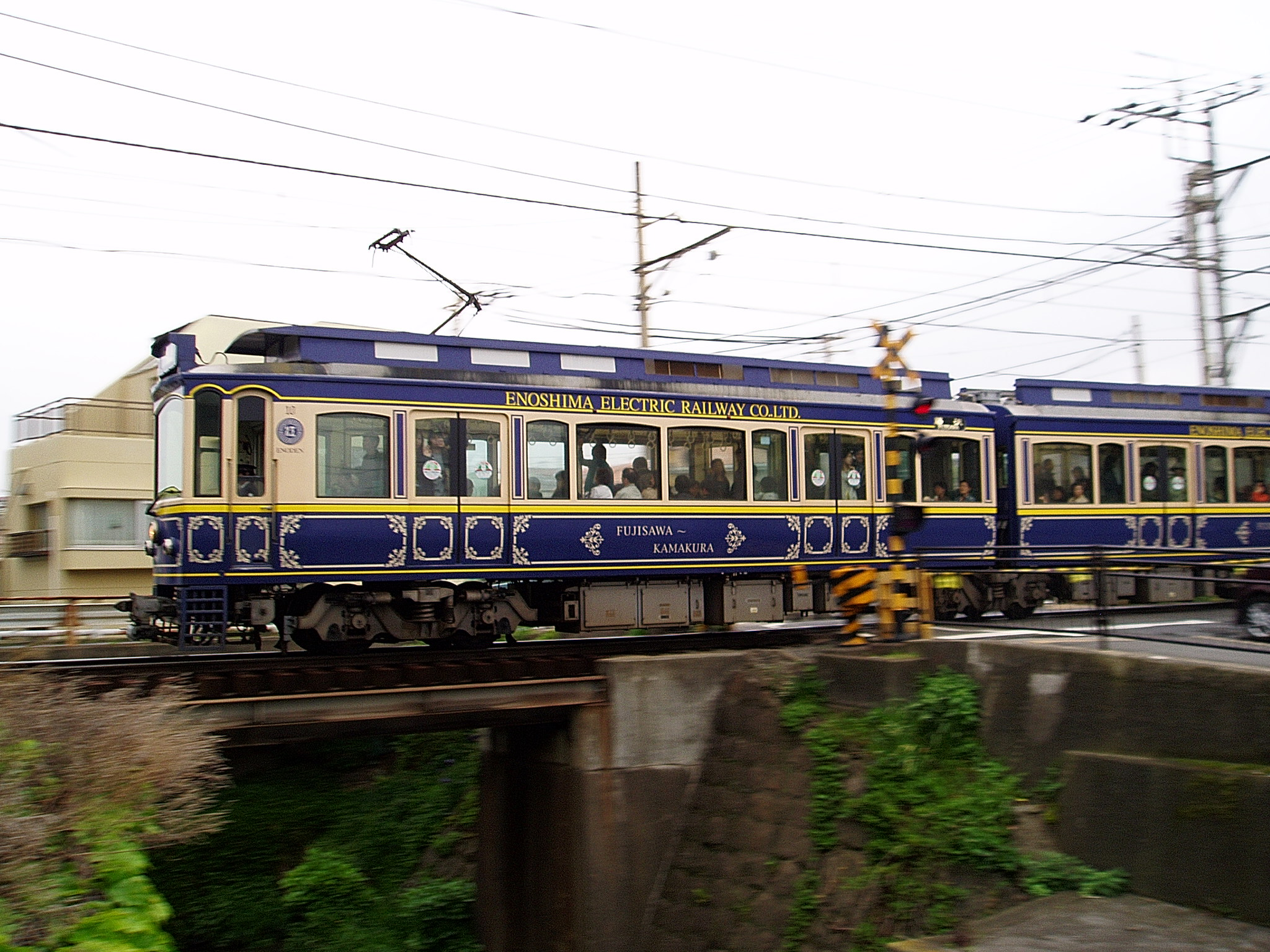 Enoden Type 10